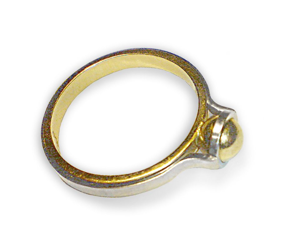 NTH Ring